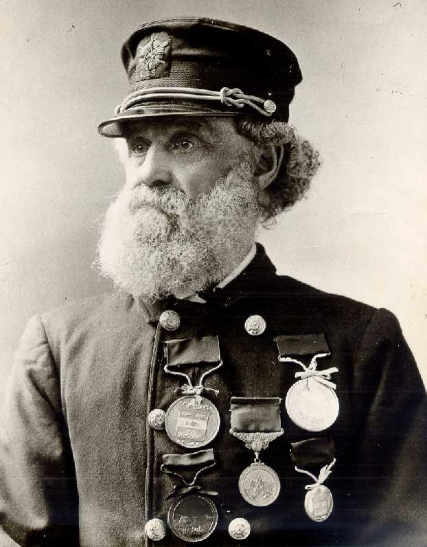 Capt. Joshua James, 1826-1902, of the United States Life-Saving Service